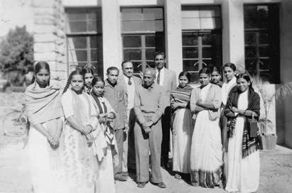 Group Photograph with his professor and colleagues